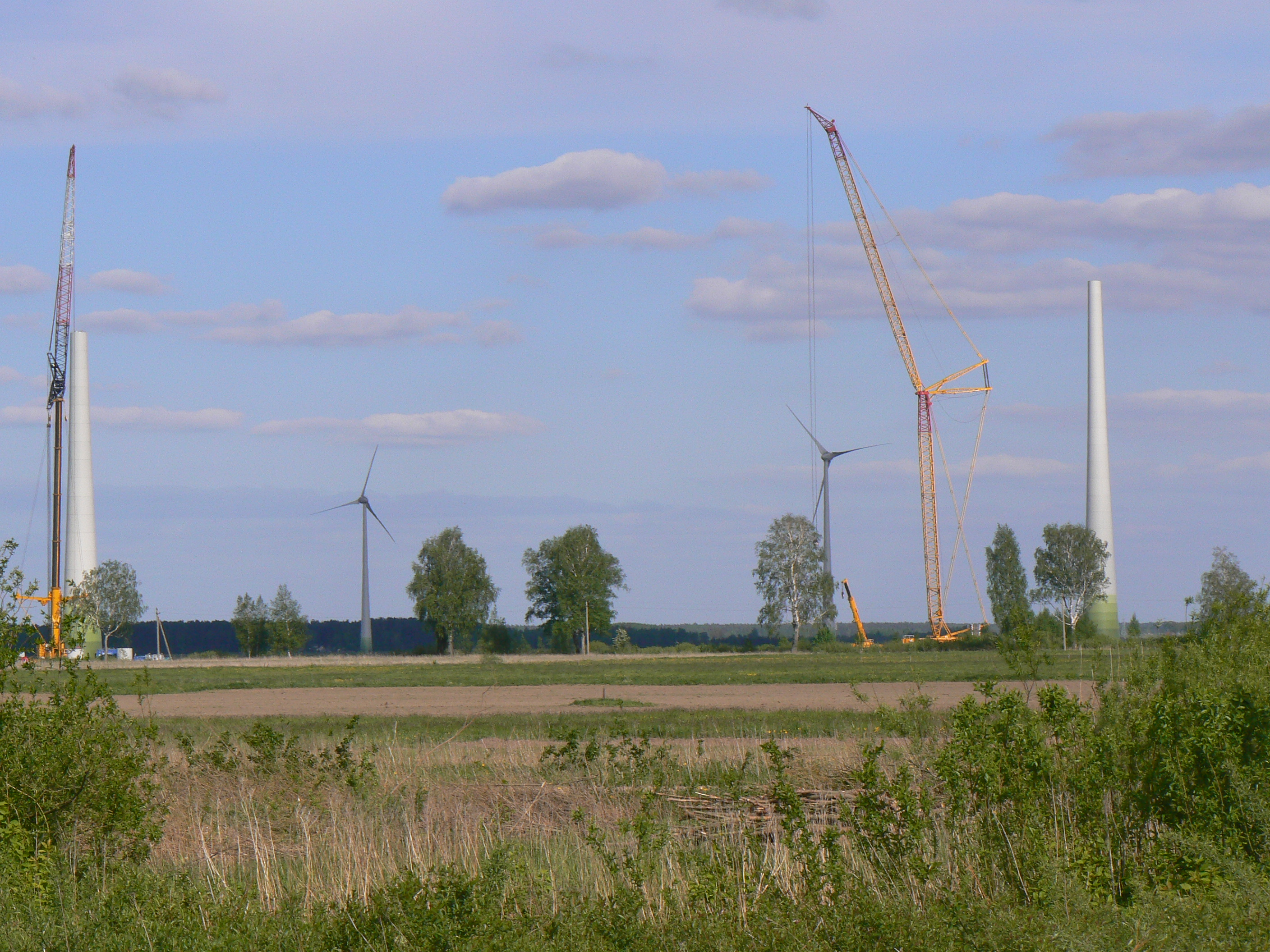 Wind power plant near Vilkyčiai, Lithuania